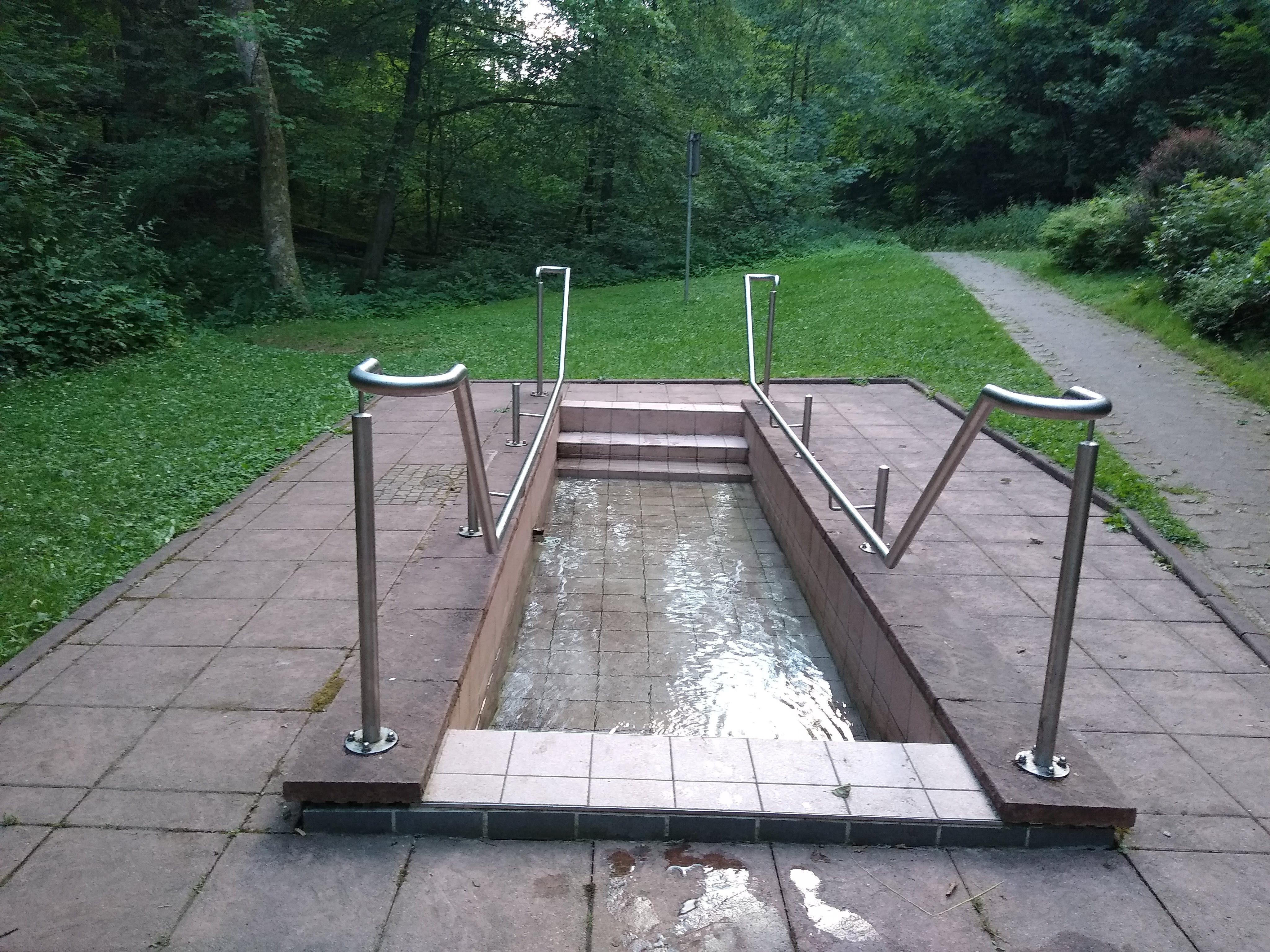 Kneipp Water-treatment Installation at the Snake Caves in Einöd Saar